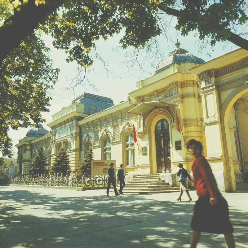 Chisinau, Lenin Prospect.